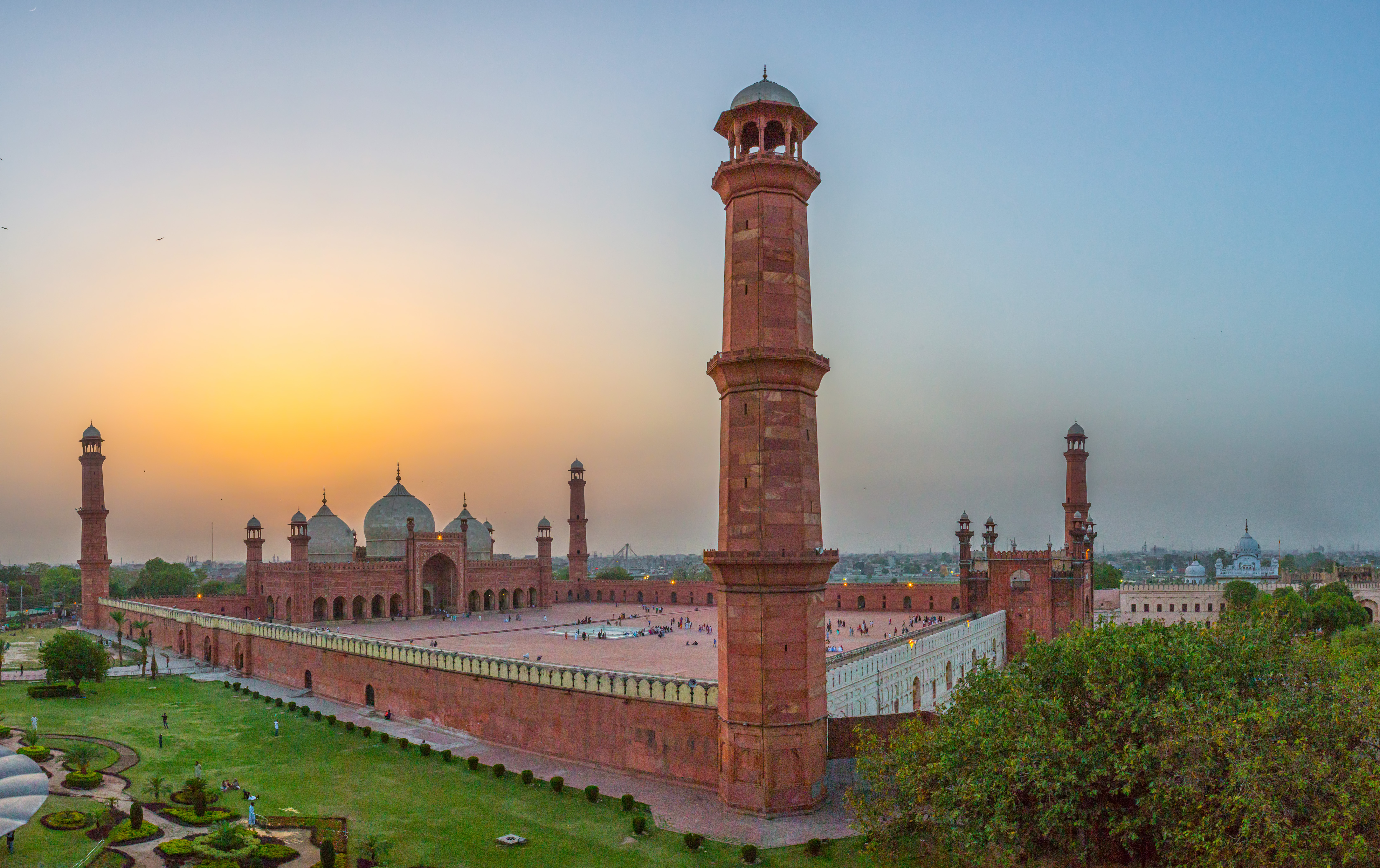 Badshahi Mosque (King’s Mosque) This is a photo of a monument in Pakistan identified as the PB-44